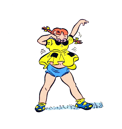 Sis the Candy Kid from Pep Comics number 60 (Archie Comics, March 1947). While the comic was aimed at a predominately female audience, stories contained a generous amount of fan service, usually in the form of Katy and/or Sis getting changed. To save time and meet deadlines, artist Bill Woggon often recycled figure work from earlier stories (see other versions, below)